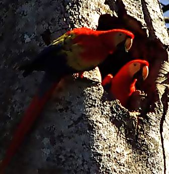 Scarlet Macaws (Ara macao) by the entrance to their nest in a tree hole.